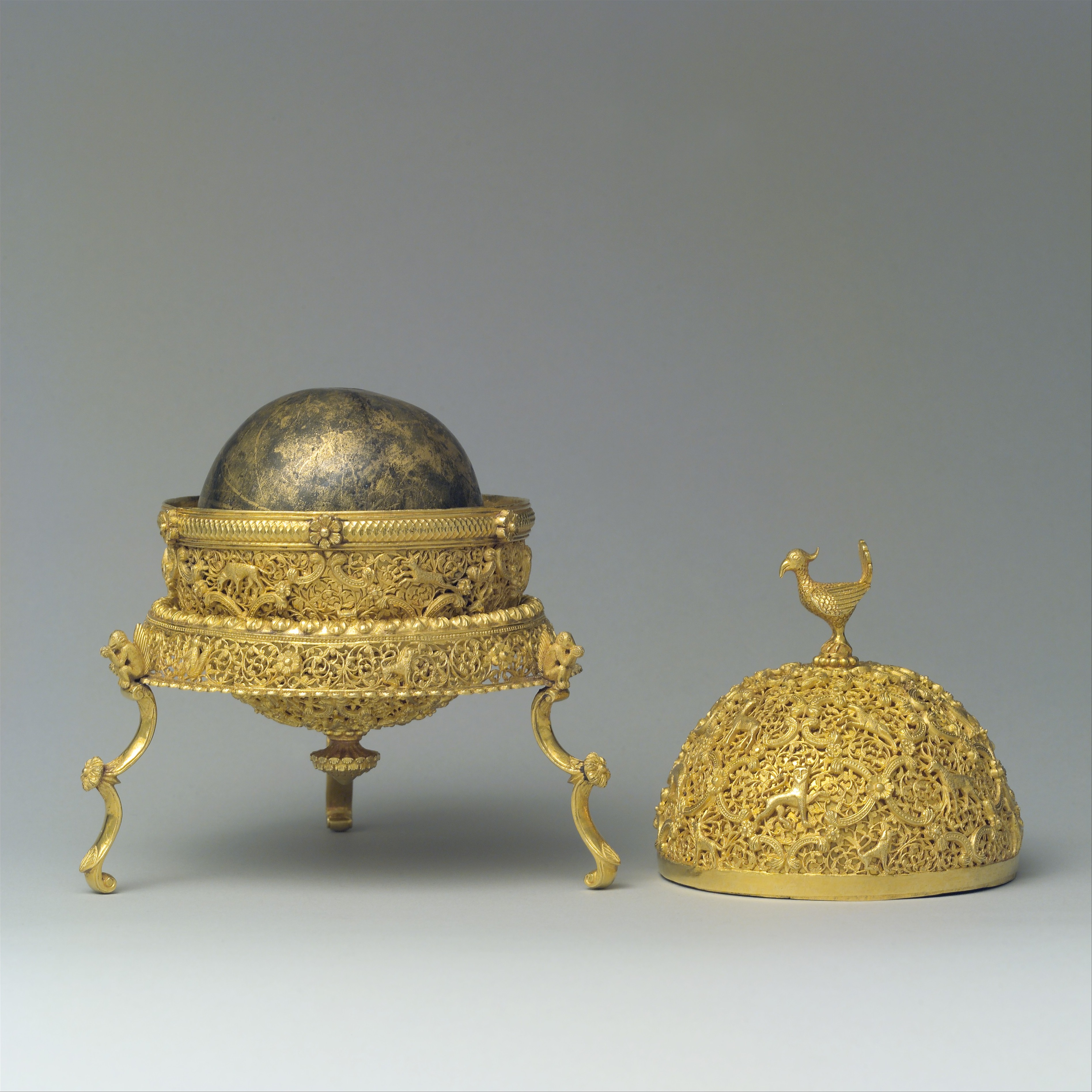 Goa stone and container; Metal